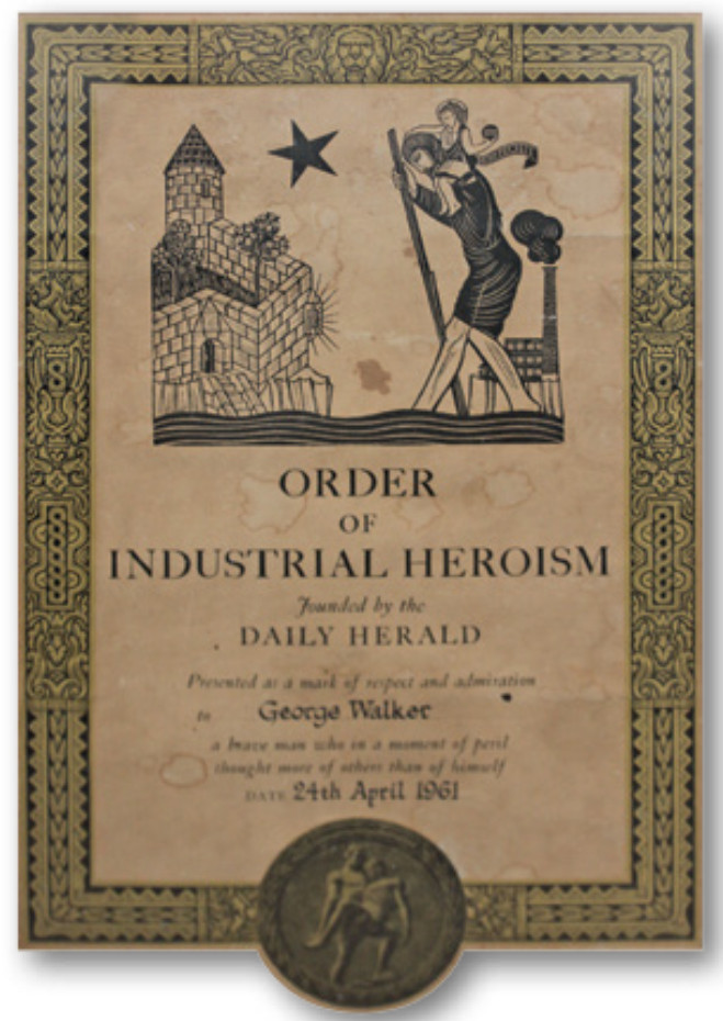 Order of Industrial Heroism' certificate awarded to George Walker in 1961.